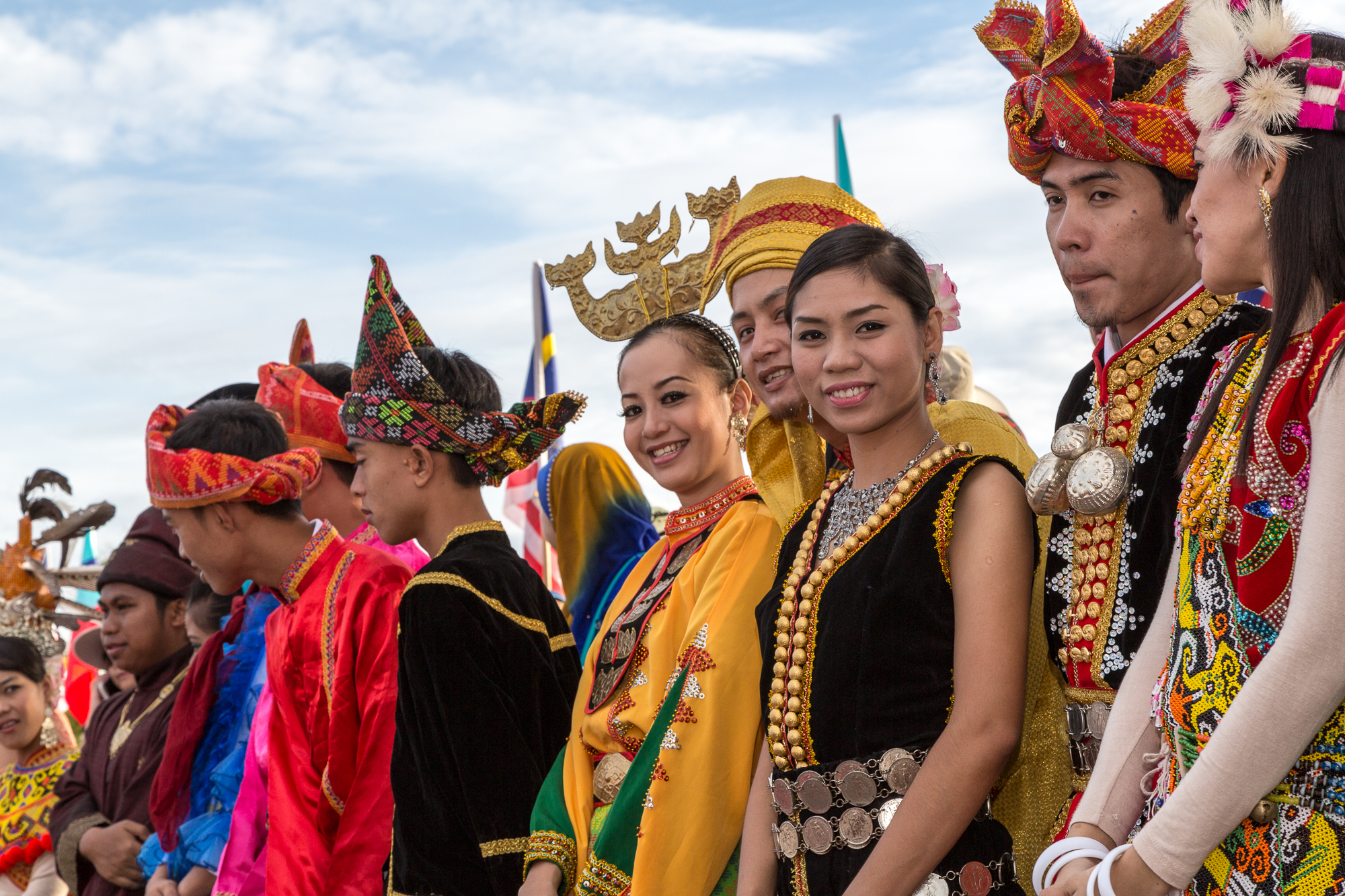 Kota Kinabalu, Sabah, Malaysia: Welcoming contingent of different tribes at Hari Merdeka 2013 in Likas on August 31, 2013